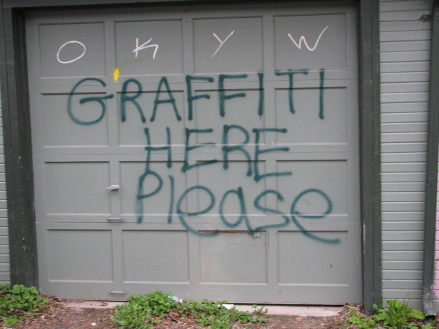 Graffiti garage door needing graffiti